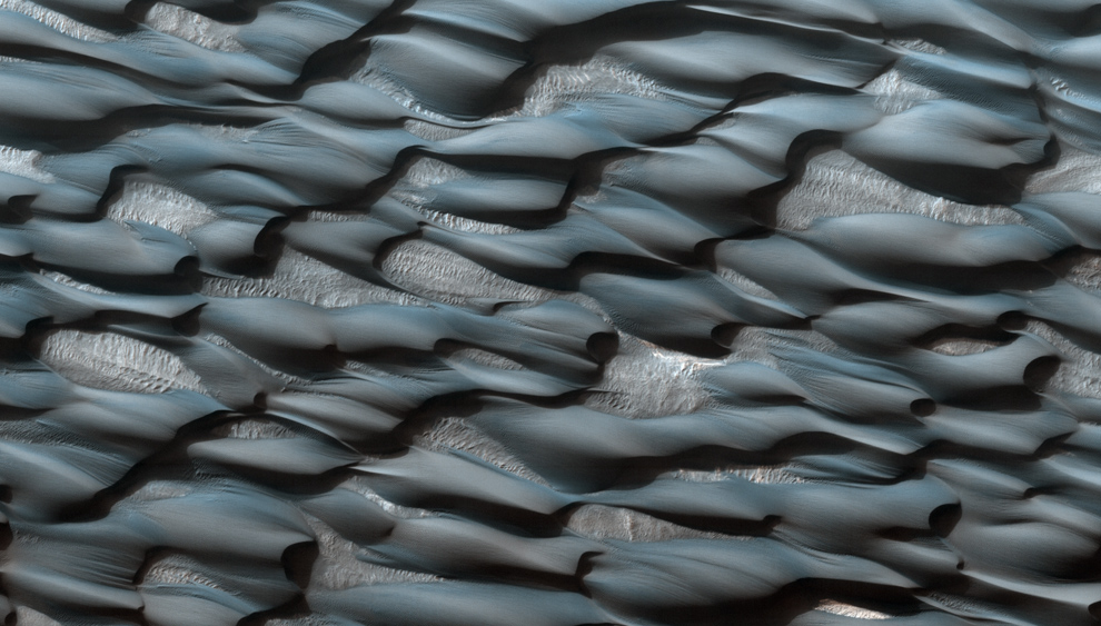 The Abalos Undae dune field stretches westward, away from a portion (Abalos Colles) of the ice-rich north polar layered deposits that is separated from the main Planum Boreum dome by two large chasms. These dunes are special because their sands may have been derived from erosion of the Rupes Tenuis unit (the lowest stratigraphic unit in Planum Boreum, beneath the icier layers) during formation of the chasms. Some researchers have argued that these chasms were formed partially by melting of the polar ice. The enhanced color data illuminate differences in composition. The dunes appear blueish because of their basaltic composition, while the reddish-white areas are probably covered in dust. Upon close inspection, tiny ripples and grooves are visible on the surface of the dunes; these features are formed by wind action, as are the dunes themselves. It is possible that the dunes are no longer migrating (the process of dune formation forces dunes to move in the direction of the main winds) and that the tiny ripples are the only active parts of the dunes today. Scale: [1]. Field of view is roughly 1.25 km x 2.2 km. Individual dunes are around 200 to 300 meters long.